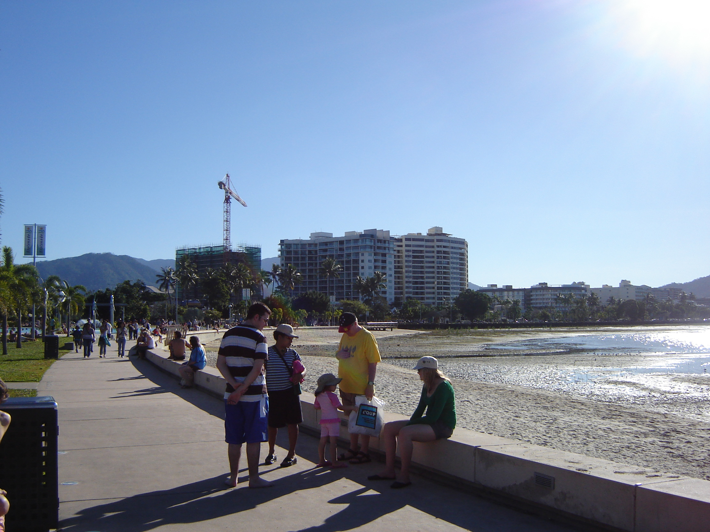 Cairns, view of the foreshore. Photo taken by Frances76.